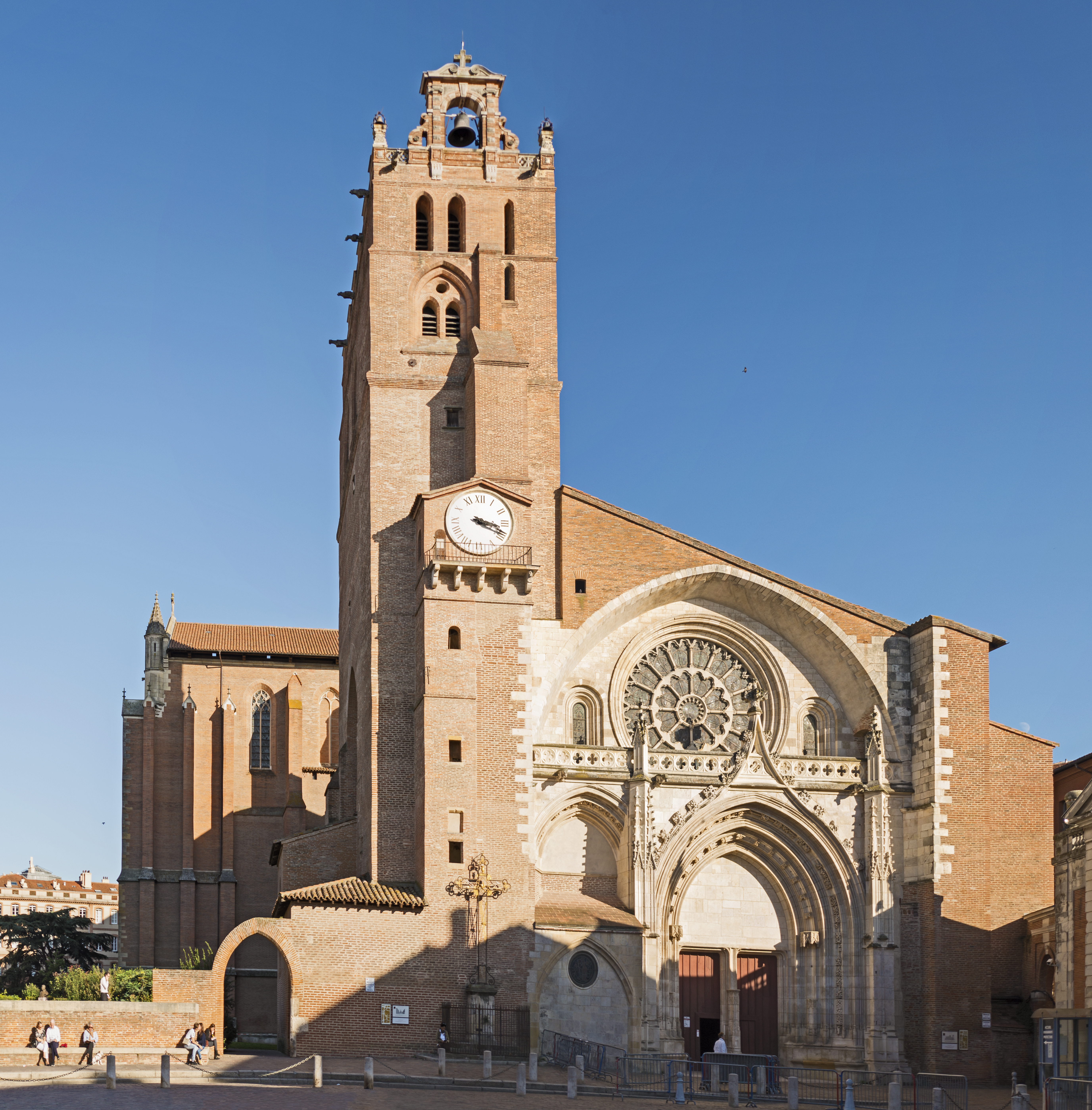 West facade of Saint-Étienne's Cathedral in Toulouse.